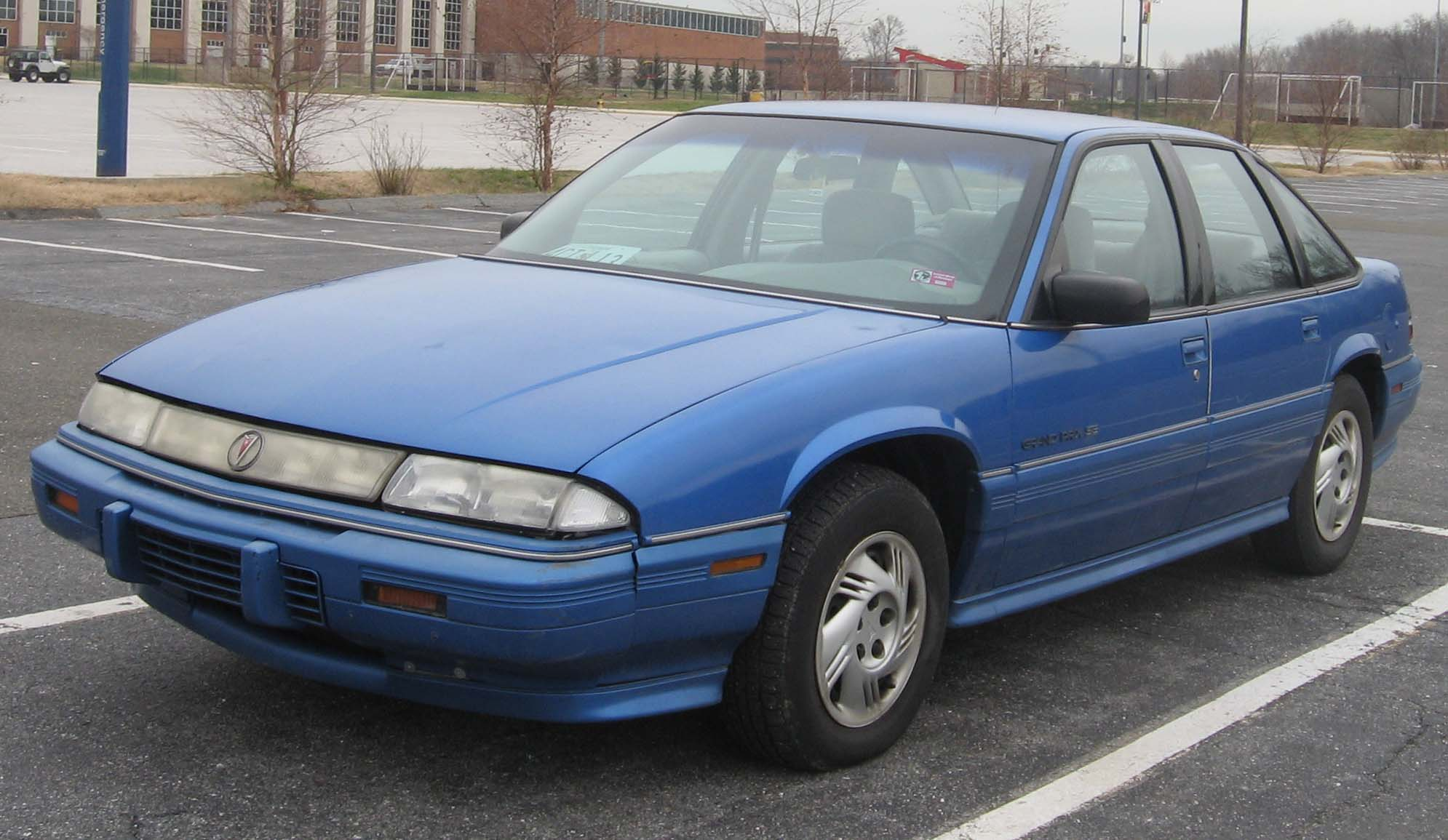 1988-1996 Pontiac Grand Prix photographed in College Park, Maryland, USA.